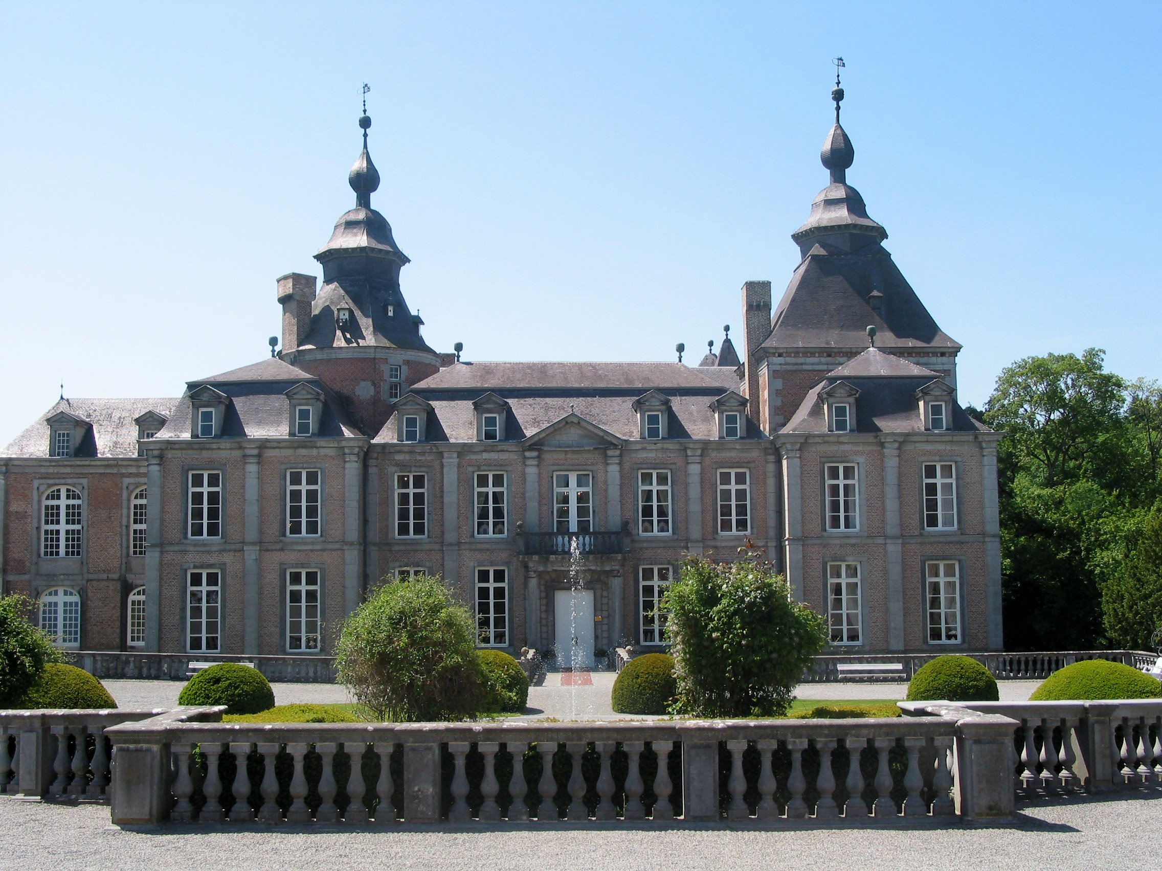 Modave (Belgium), the castle.